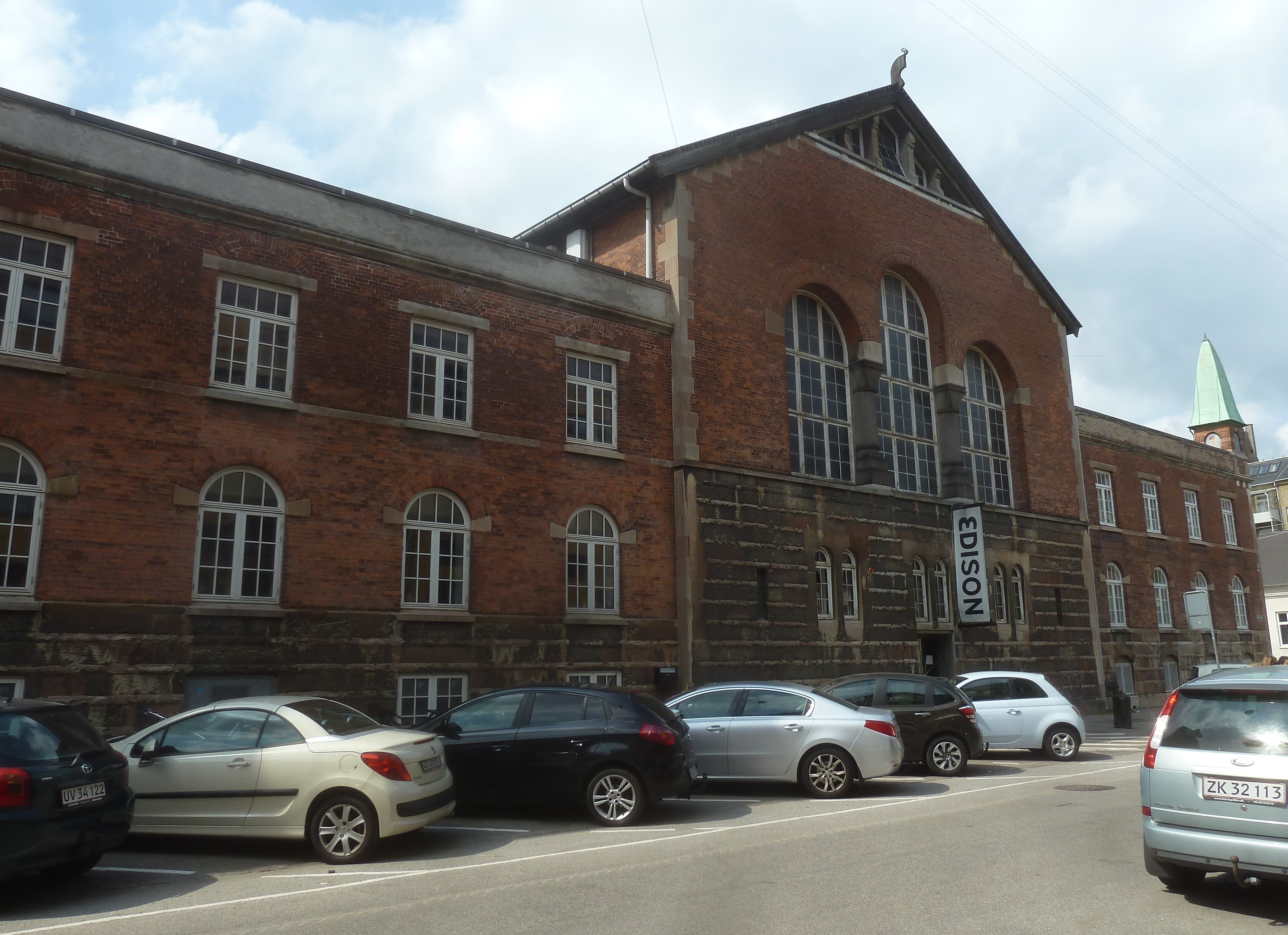 Edison, part of Betty Nansen Teatret, in Copenhagen, Denmark